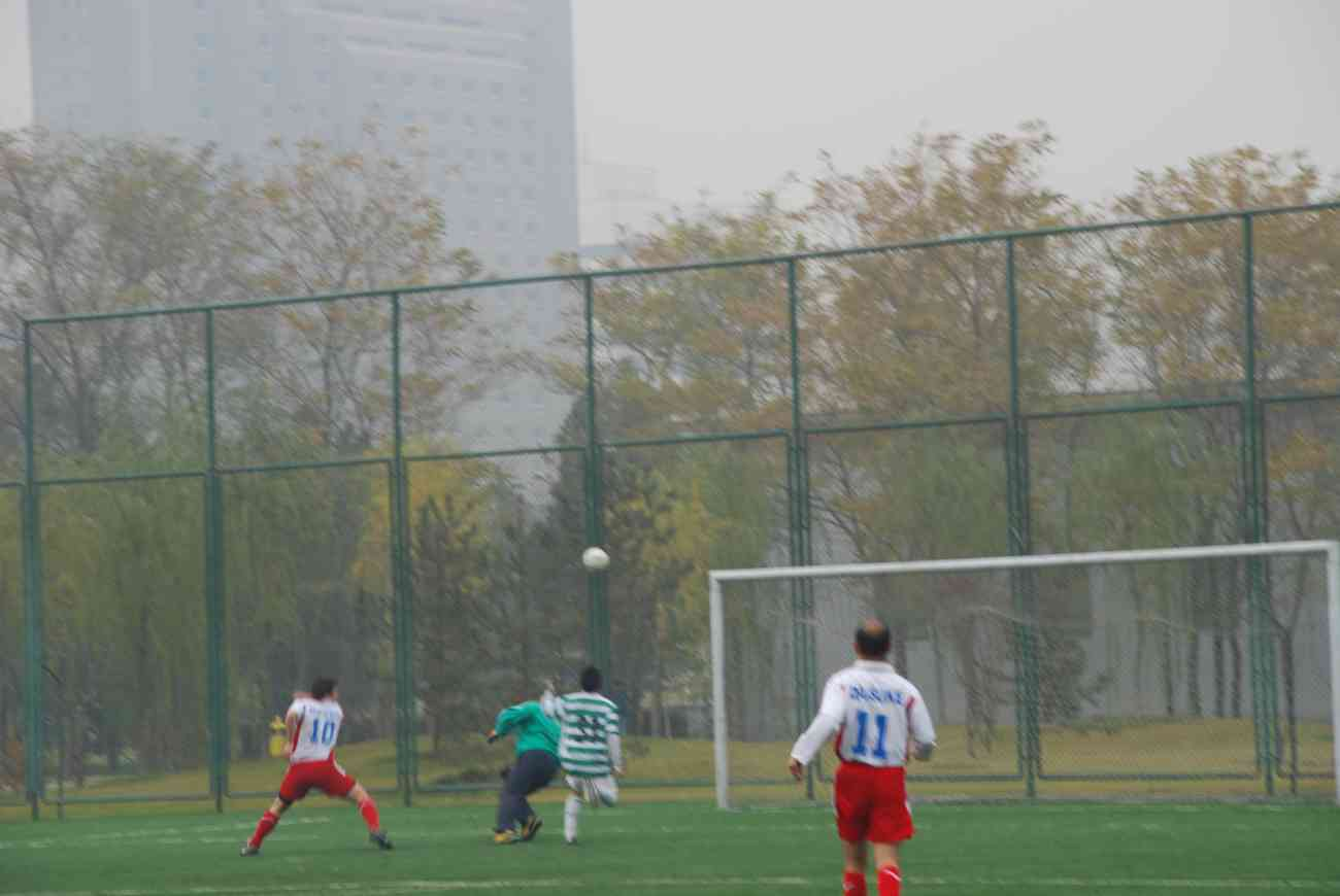 Phil lobbing the keeper